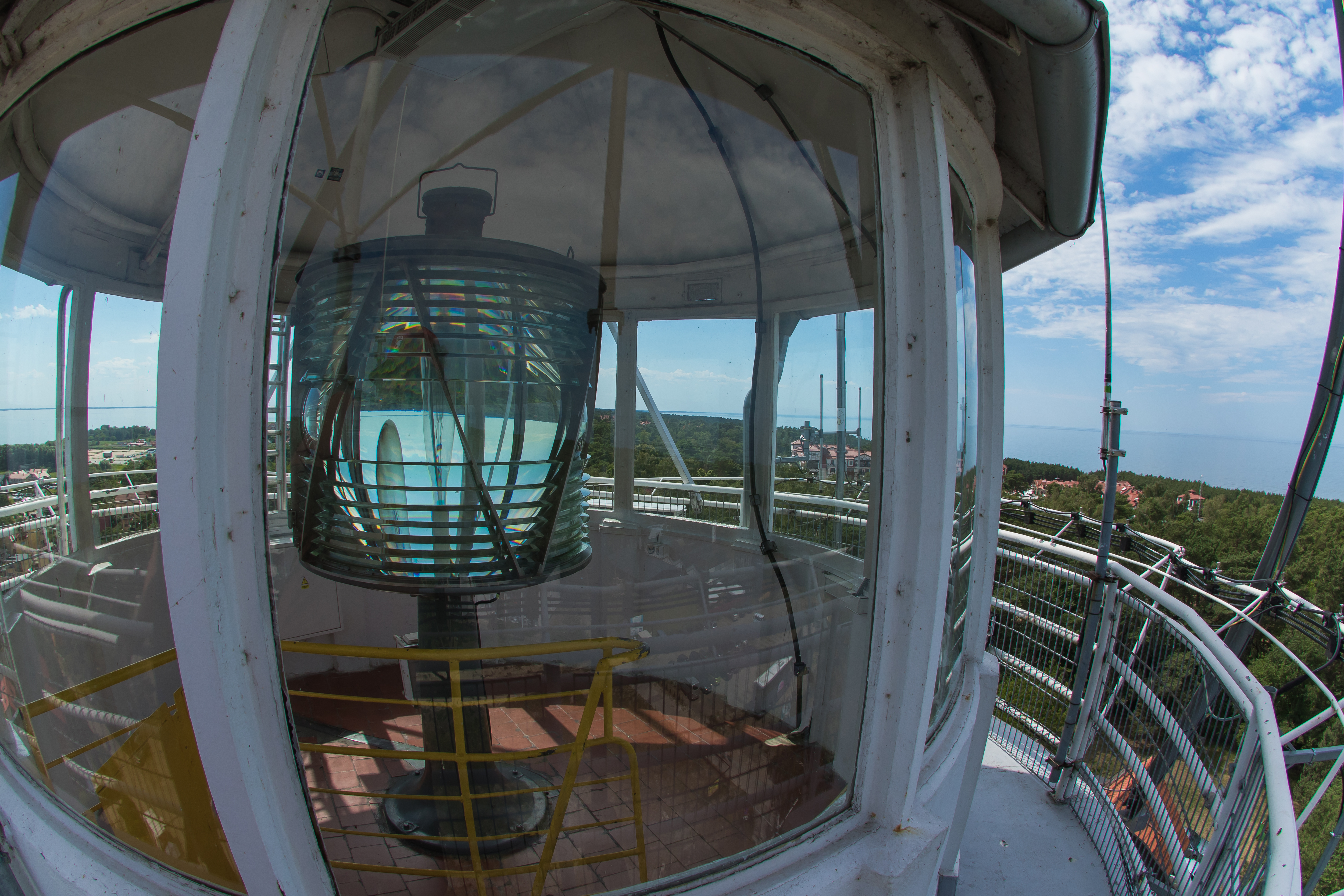 Photo taken during a trip on the Polish coast in July 2018. An expedition co-financed by the Wikimedia Poland Association and the Society of the Friends of the National Maritime Museum in Gdańsk.